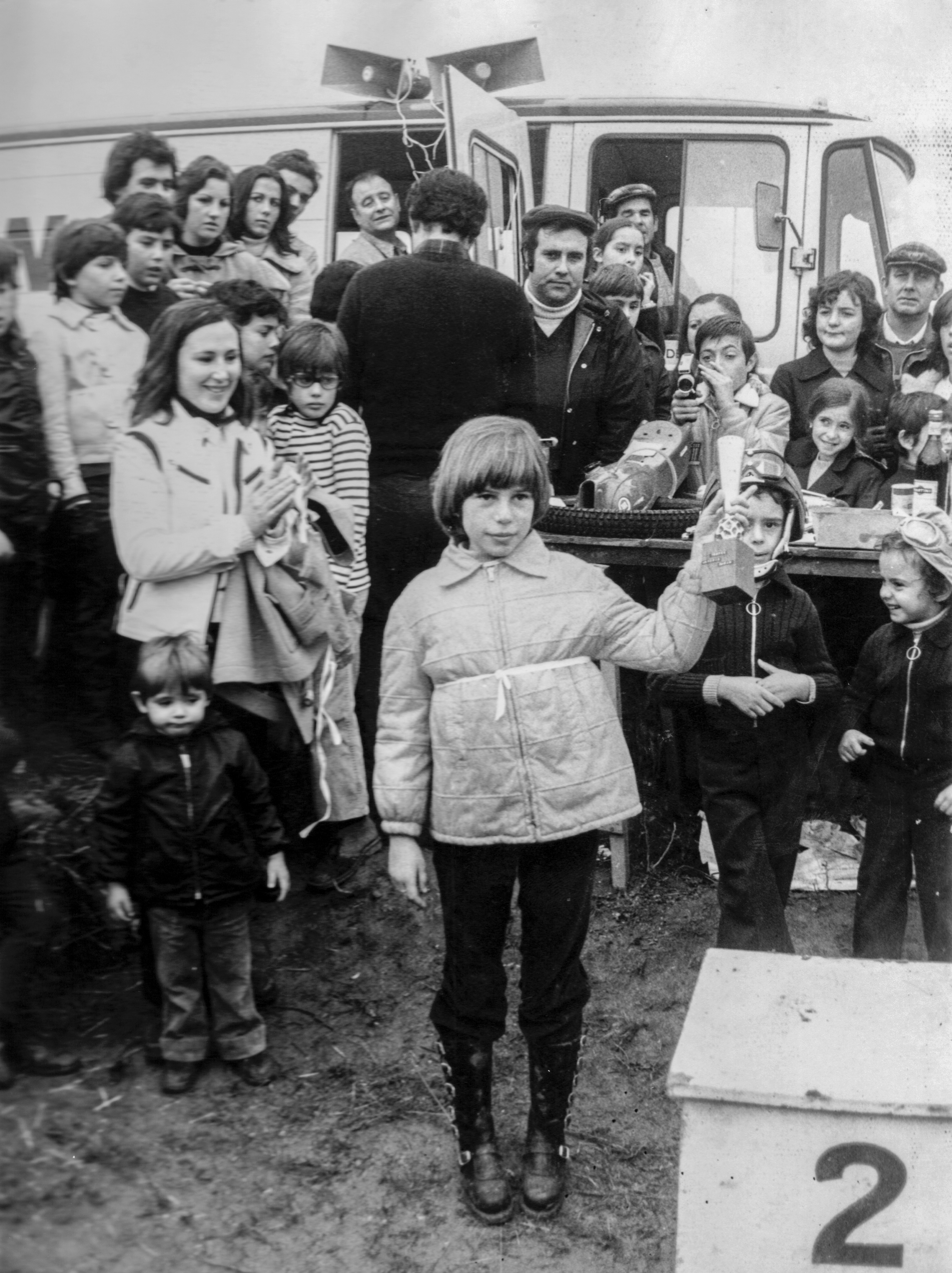 A competitor of the race at Can Cuberot, perhaps Angelina Mañer or Glòria Alonso. Behind her, both with helmet, Núria and Glòria Isern